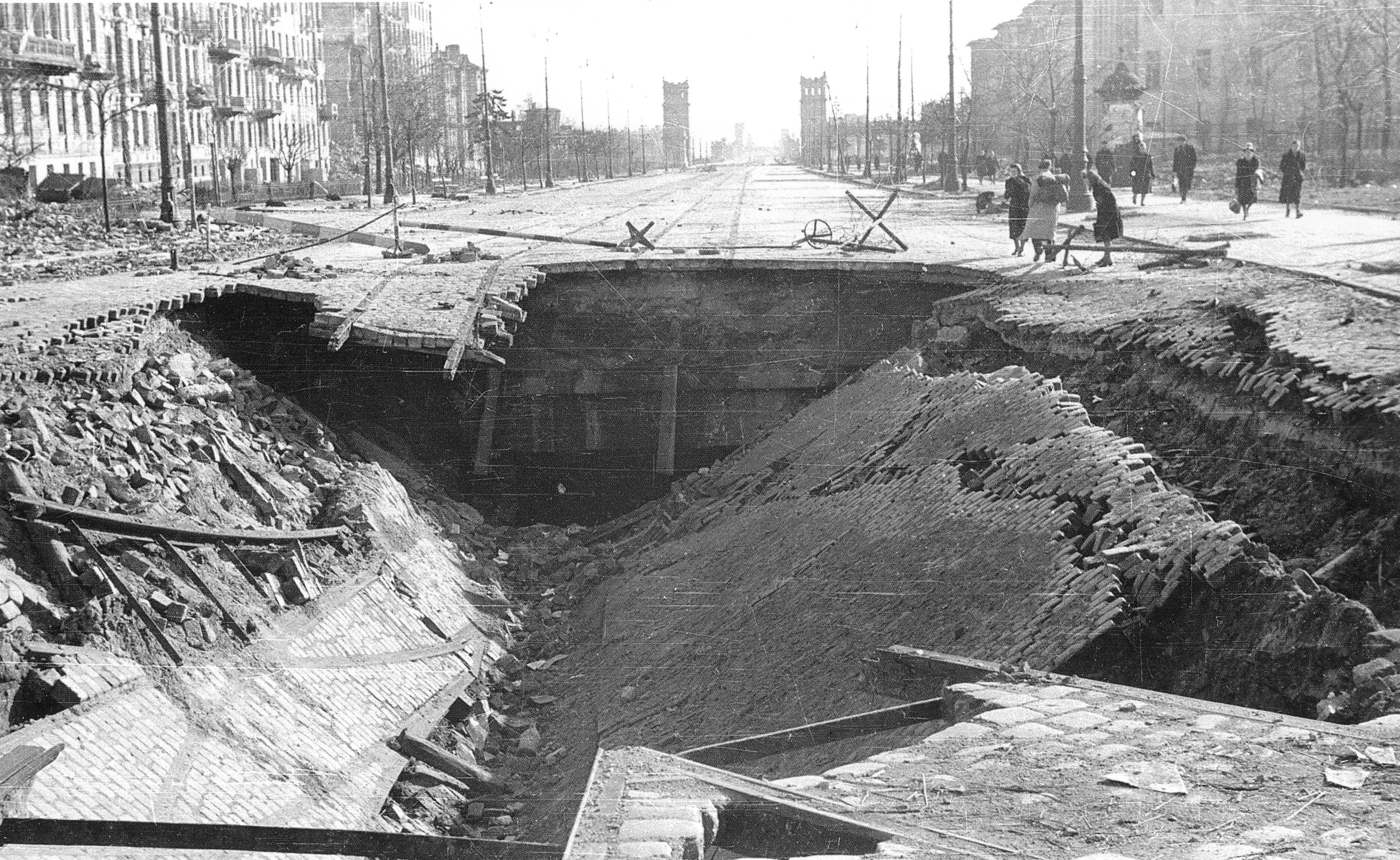 Railway tunnel under Al. Jerozolimskie destroyed by German forces